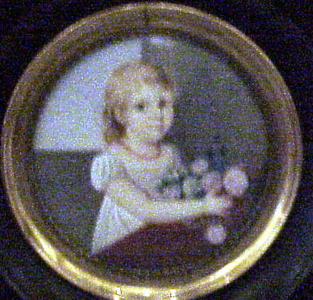 Allegra Byron, daughter of George Gordon, Lord Byron